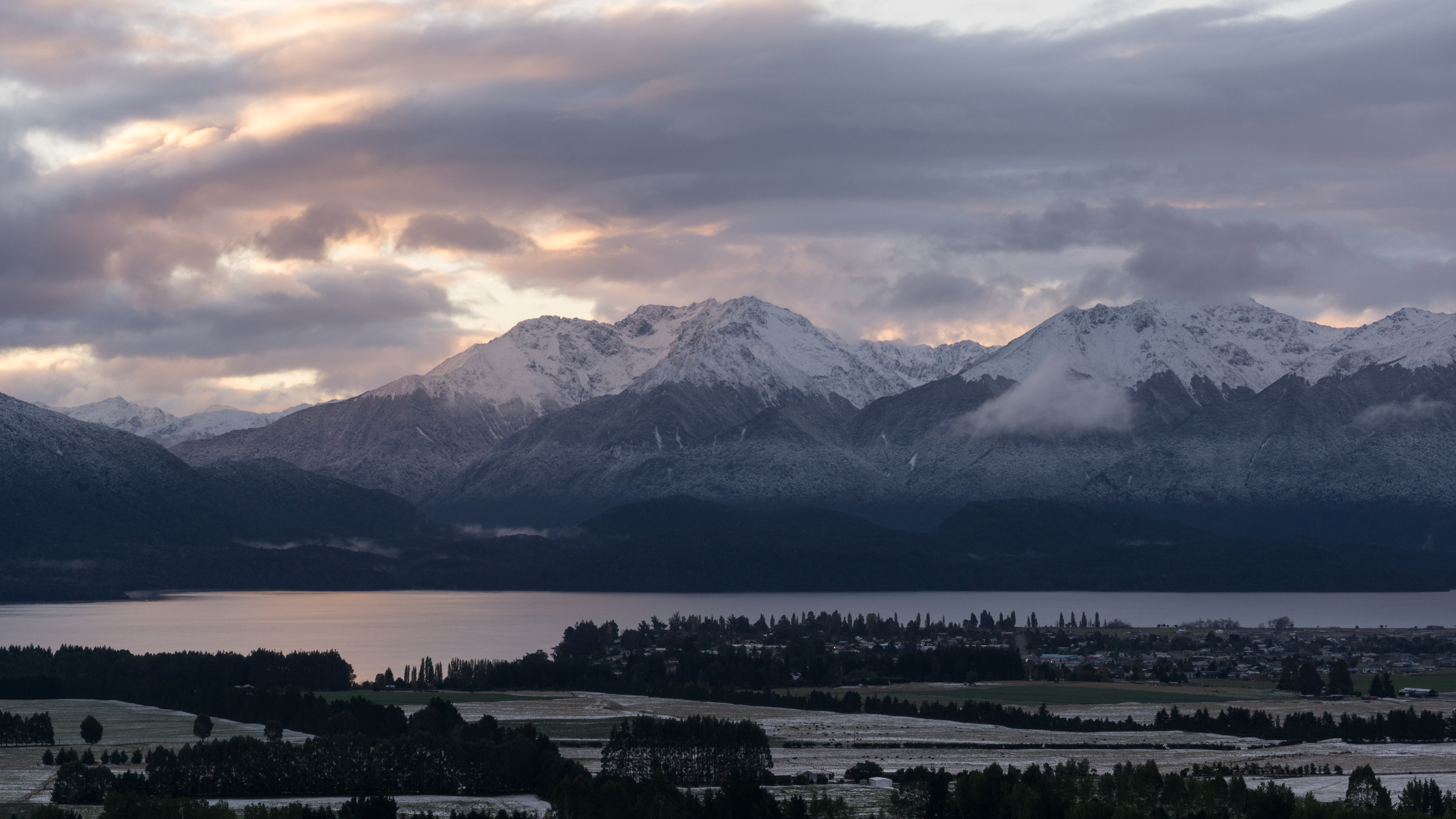 Te Anau with the Murchison Mountains in the background. Taken at dusk on the first day of snow fall in 2015.